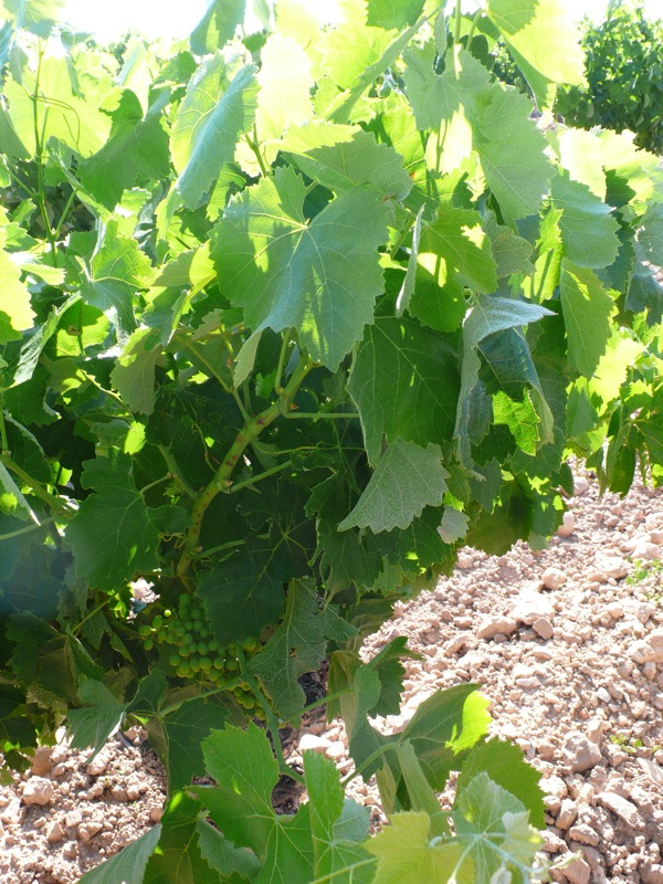 Green pre-veraison clusters of Tempranillo blanco (a white grape mutation of Tempranillo) growing the Rioja wine region of Spain.